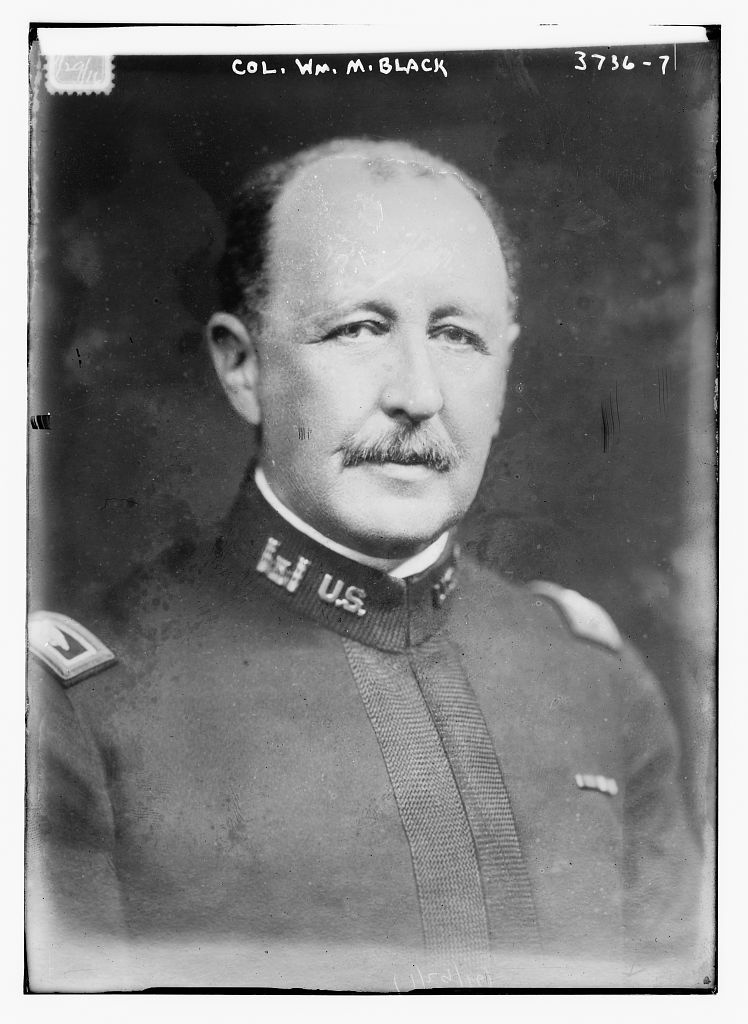 William Murray Black (December 8, 1855 – September 24, 1933) circa 1915